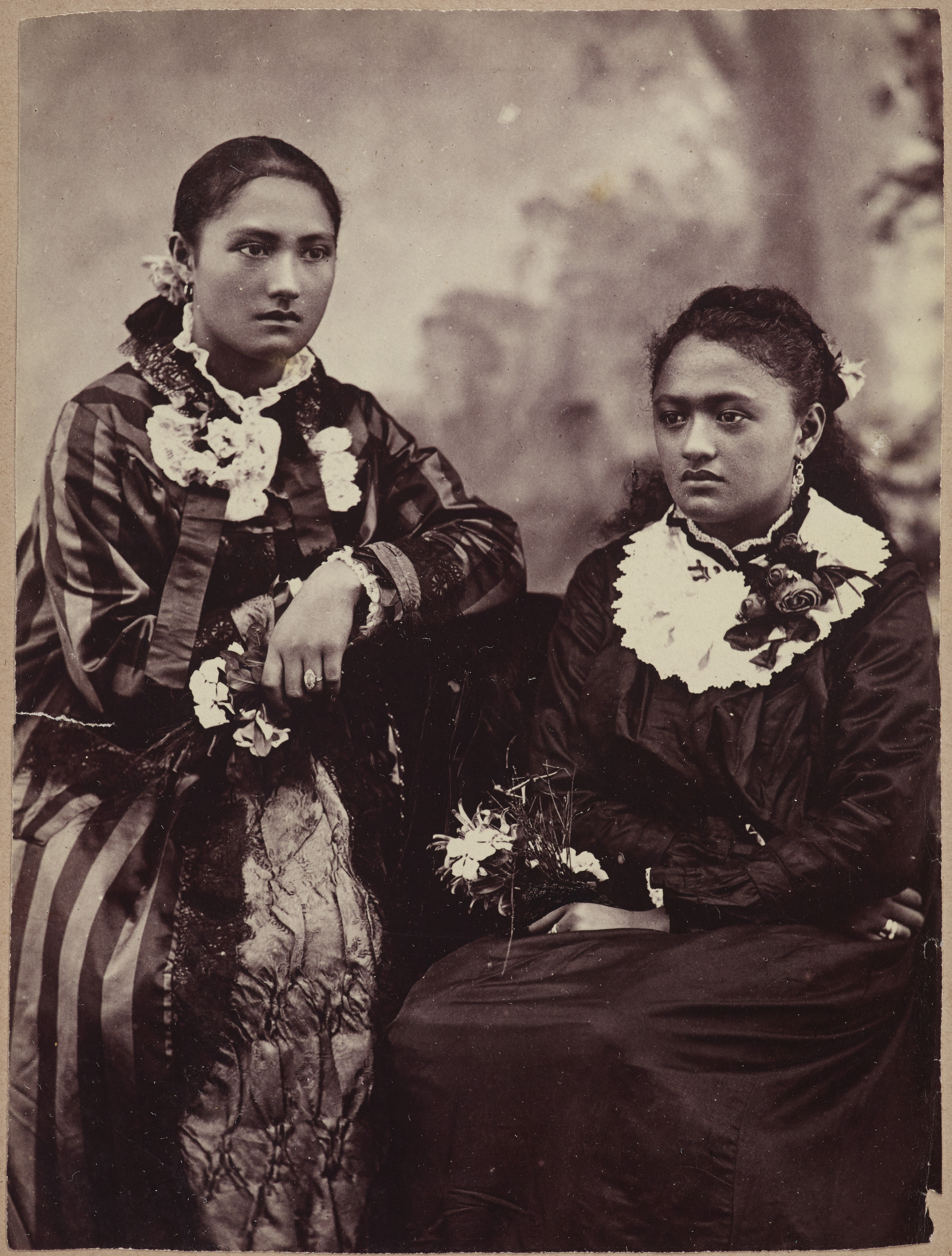 Teriʻivaetua and Teriʻimaevarua. The caption is incorrect since only Teriʻimaevarua was queen and she was Queen of Bora Bora not Huahine or Raiatea. And the date of 1891 is questionable since these photos were part of a royal collage made by photographer Sophia Hoare in 1885..